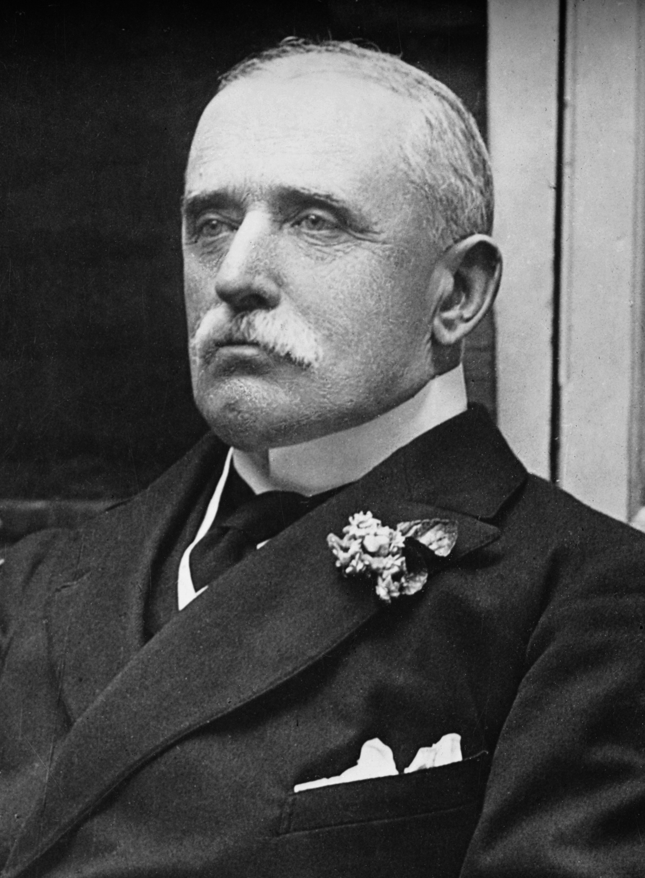 John French, 1st Earl of Ypres